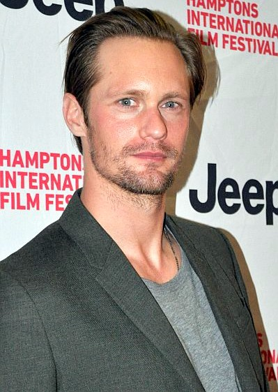 Alexander Skarsgård at the 19th Annual Hamptons International Film Festival 2011.